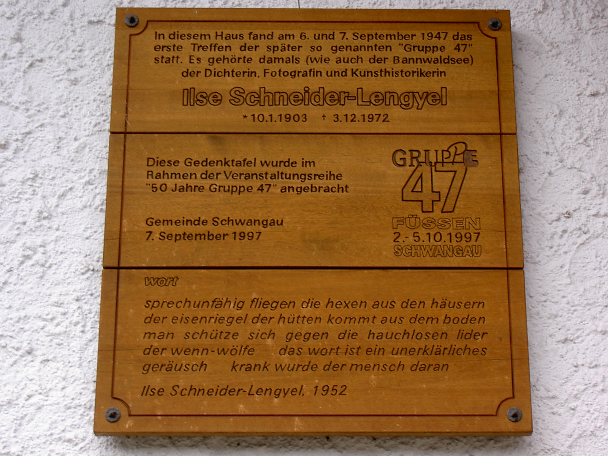 House where the "group 47" was founded, living house of German writer Ilse Schneider-Lengyel at the lake "Bannwaldsee", Bavaria, Germany, memorial board